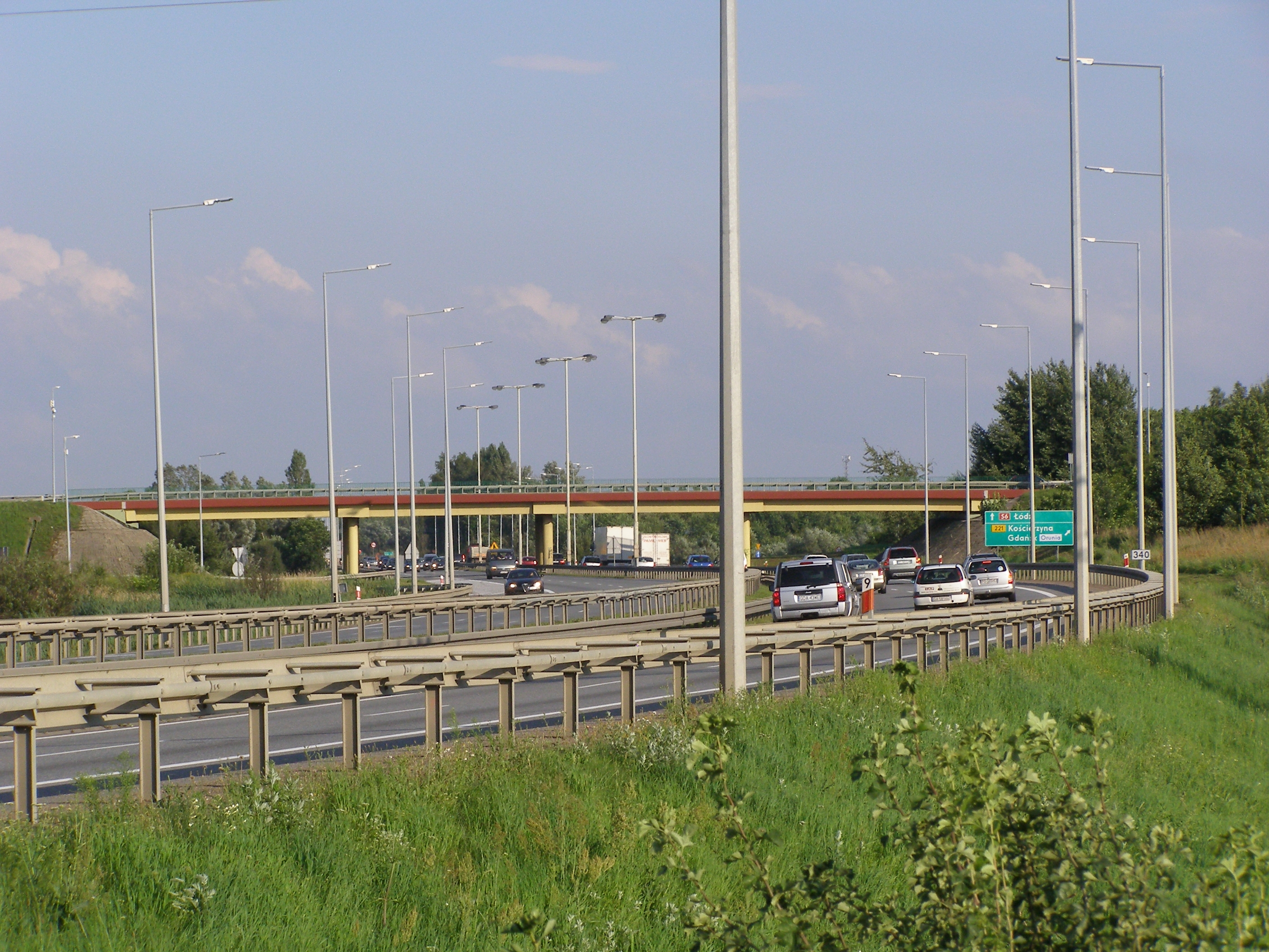 Kowale - interchange of the Trójmiasto Bypass (S6 expressway) with the voivodeship road No. 221